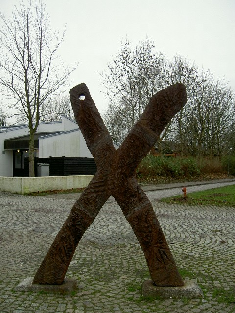 Art in front of Ellevang Kirke